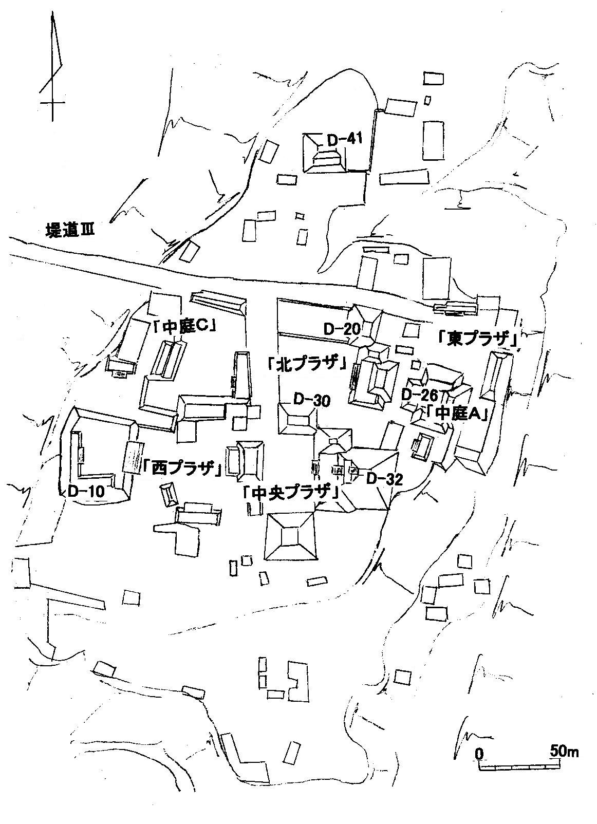 Map of Seibal GroupD